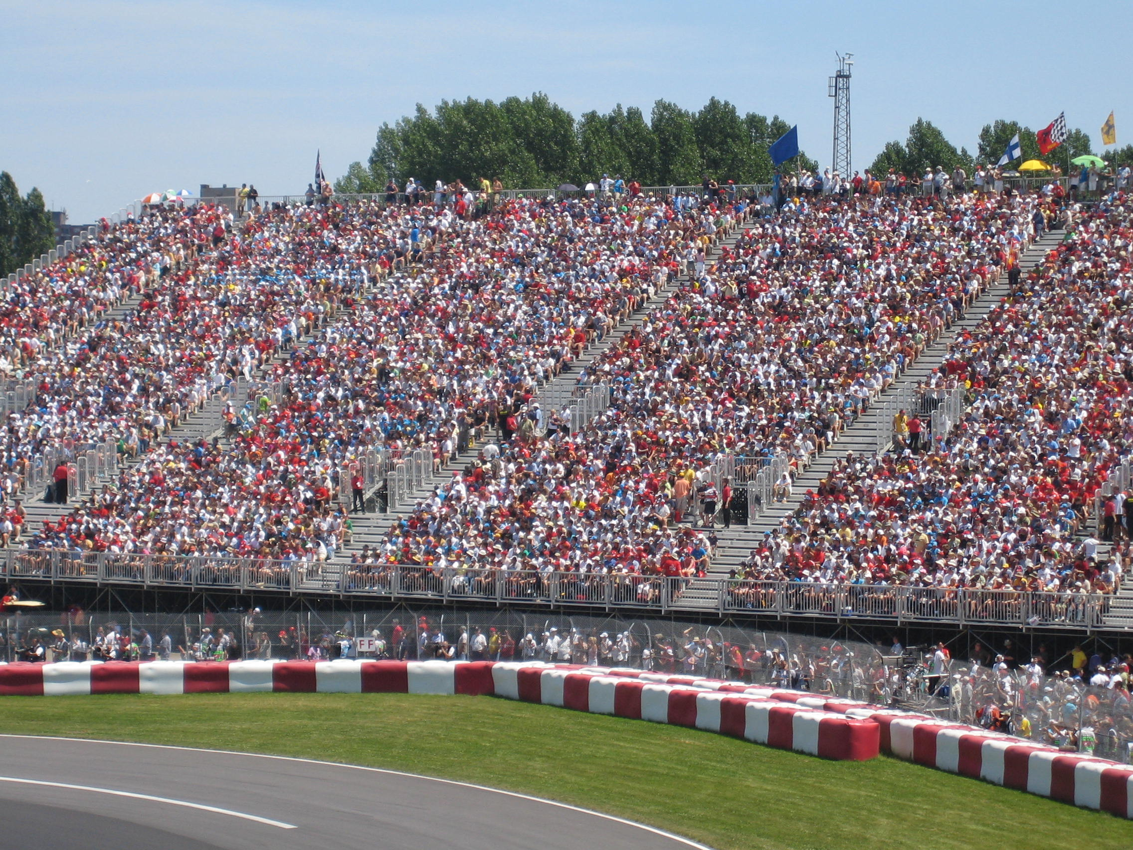 I took this photo at the race in 2006